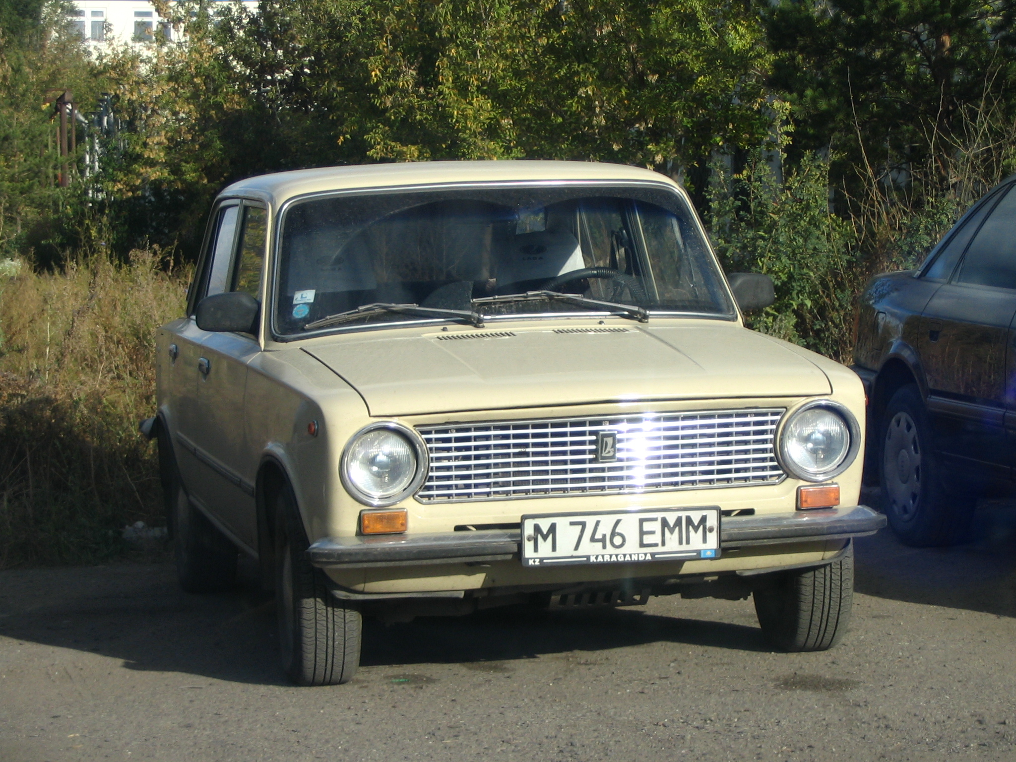 A Zhiguli (VAZ-2101) in Karaganda, Kazakhstan. In Europe, this model is known as “Lada 1200”.